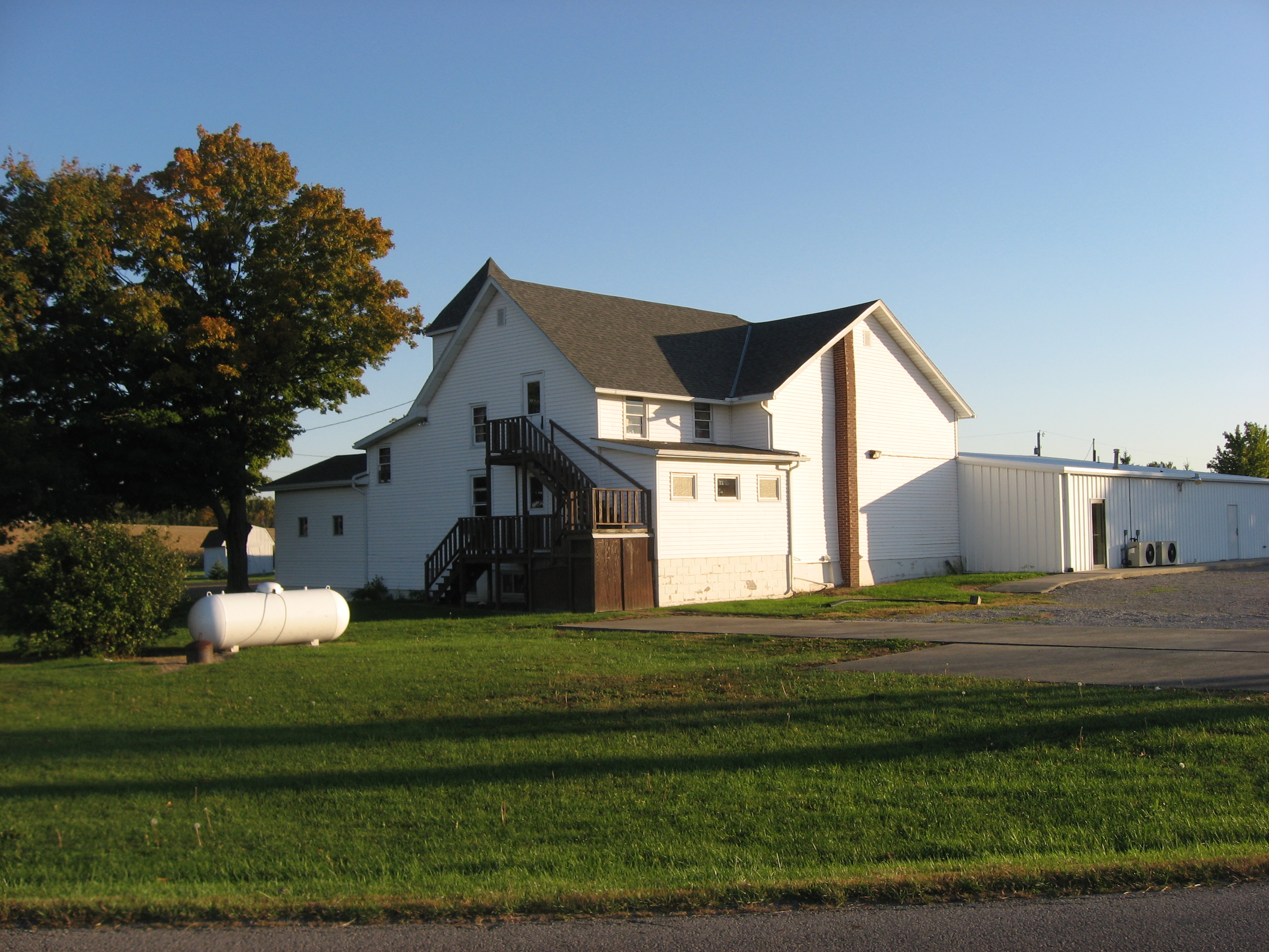 Northern front of the New Richland Baptist Church, located at 8651 County Road 39 in New Richland, Ohio, United States.